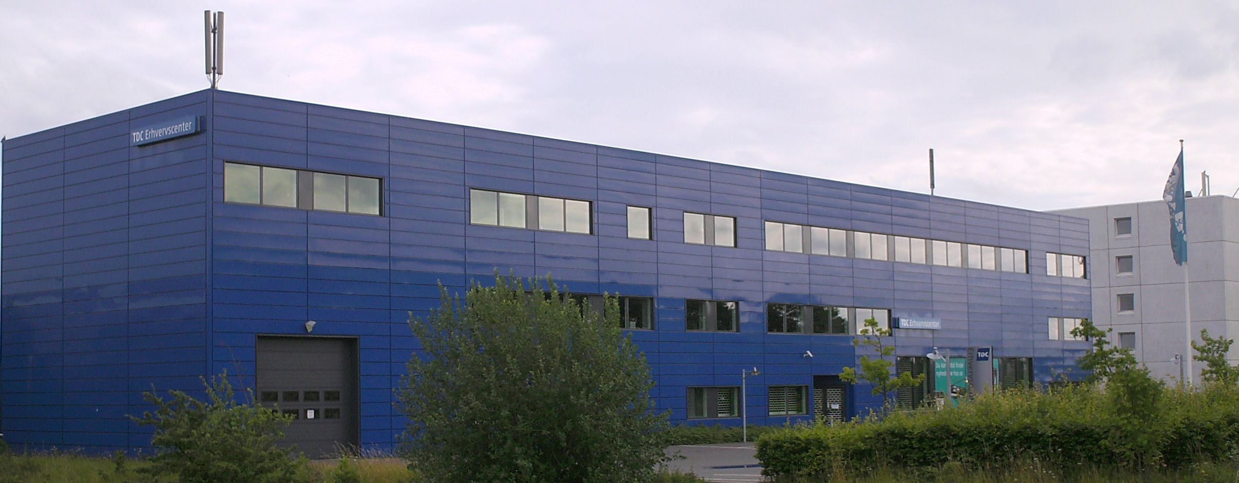 TDC A/S in Aarhus, Denmark.